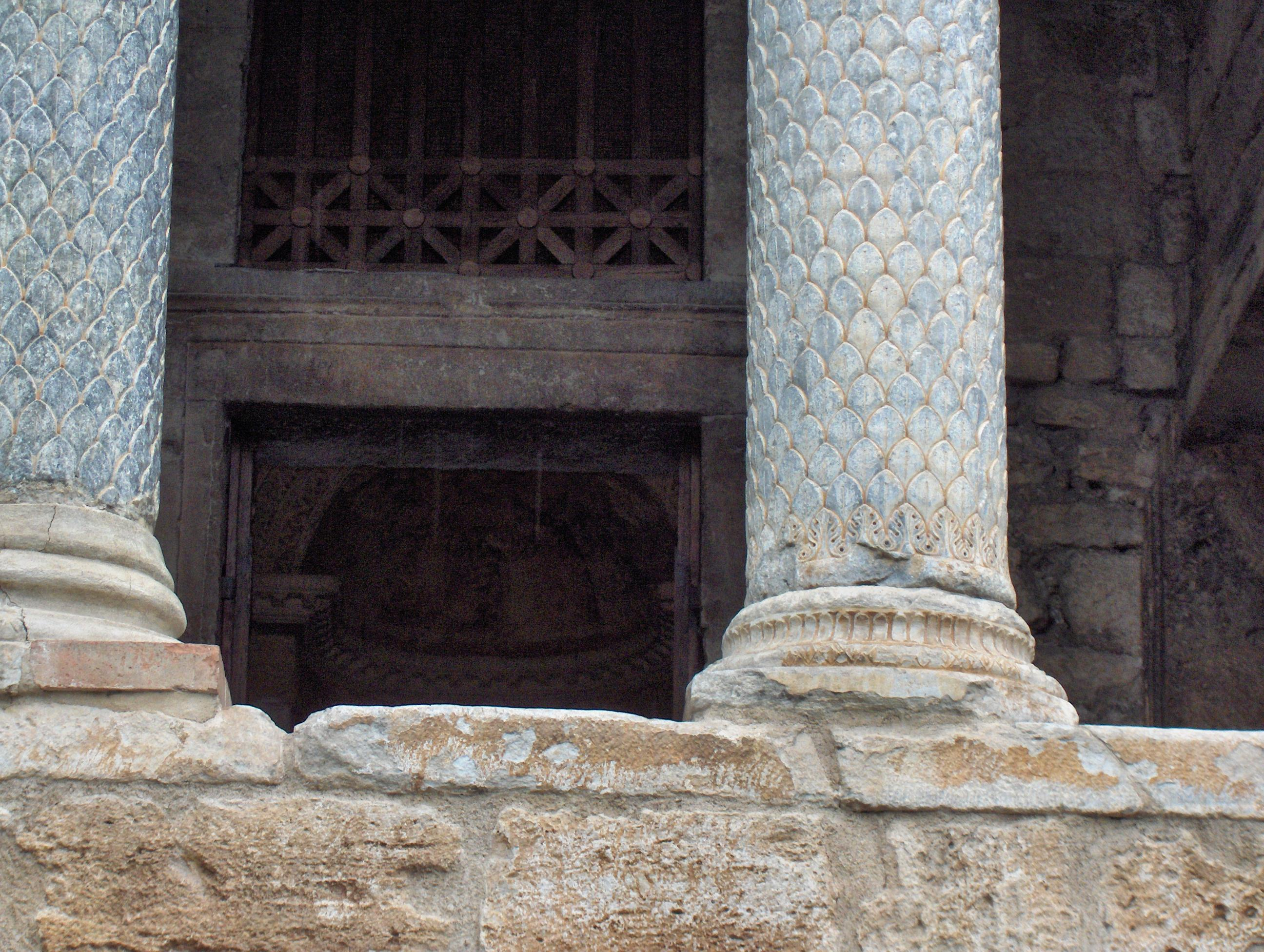 The former Roman temple dedicated to the river god Clitumnus and transformed into an early-Christian church (probably in the fourth century); located in Campello sul Clitunno, south of Trevi, Italy.